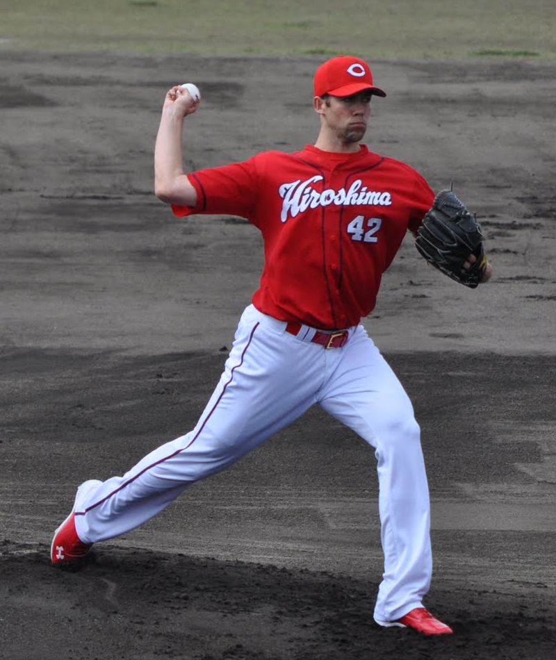 Bryan Bullington, pitcher of the Hiroshima Toyo Carp, at Okinawa Municipal Baseball Stadium.